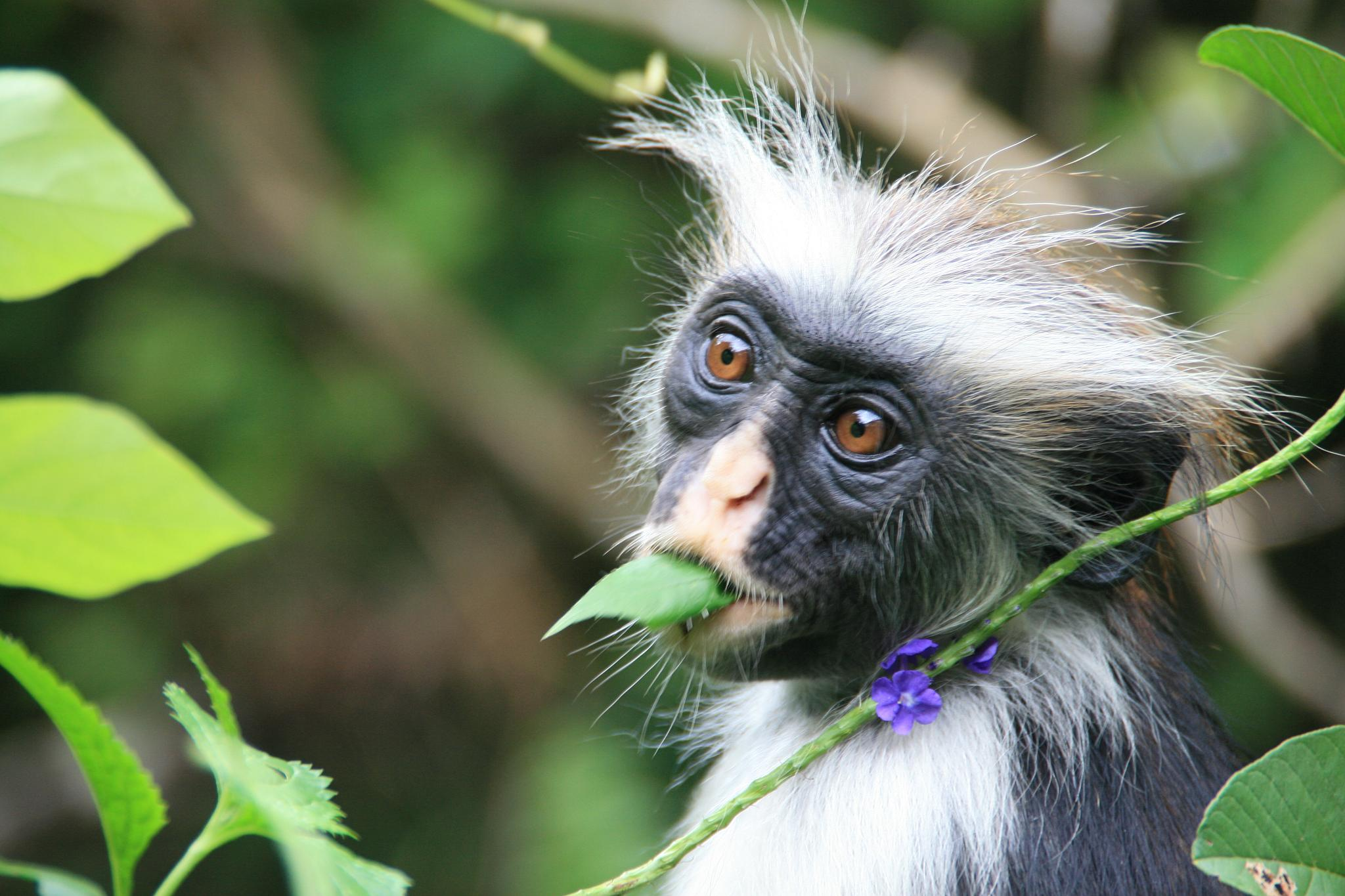 Zanzibar red colobus eating